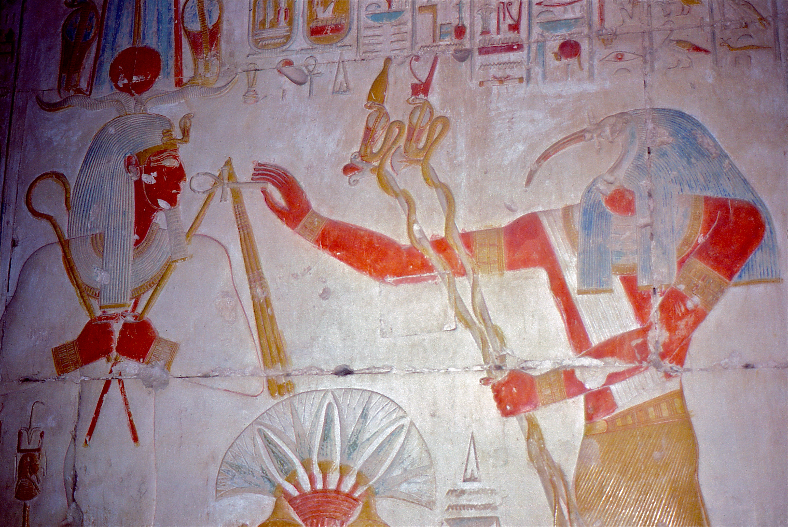 Temple of Seti I, Abydos, EGYPT Scanned Slide from August 1985